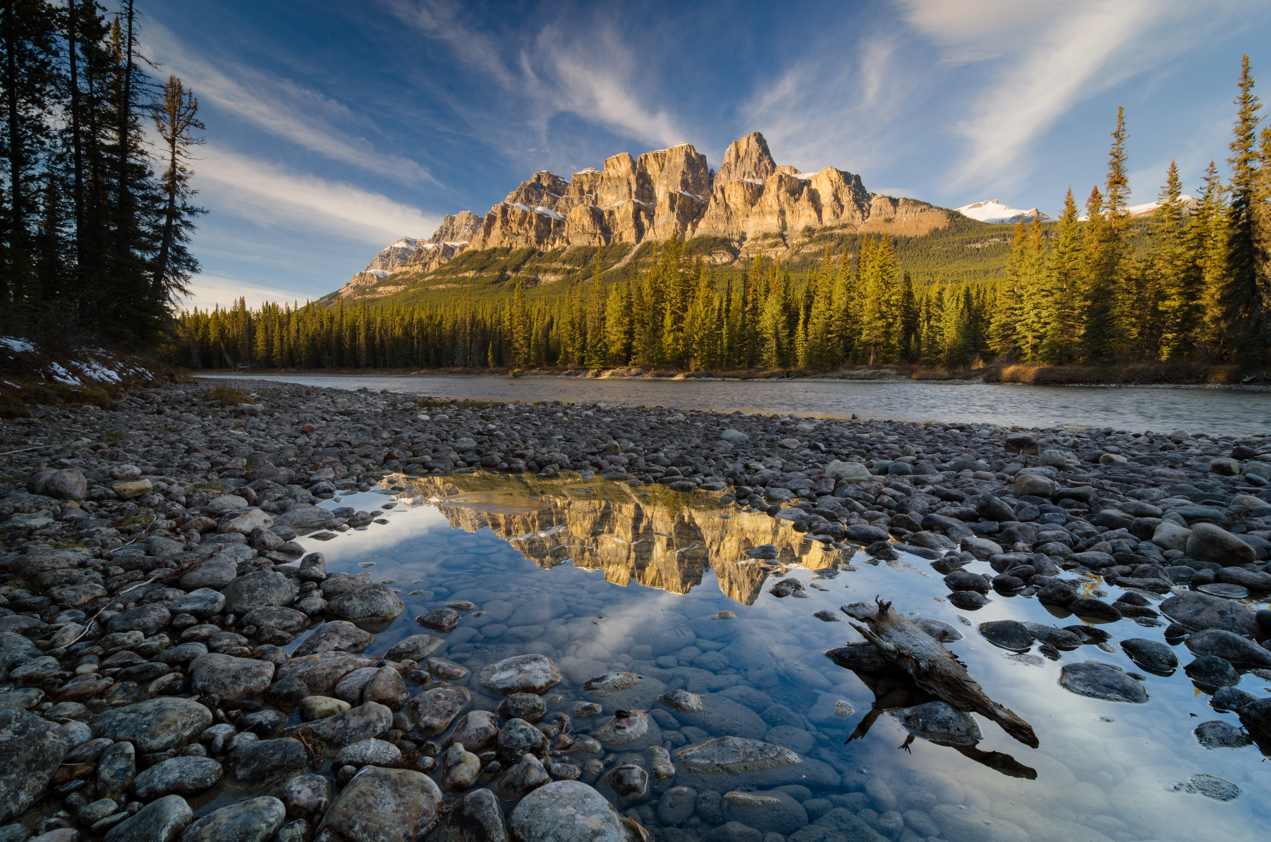 Castle Mountain from the Bow River bank, Banff National Park, Alberta, Canada